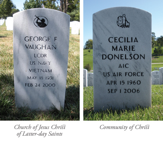 2 gravestones from Arlington National Cemetery, with religious symbols for The Church of Jesus Christ of Latter-day Saints and Community of Christ.